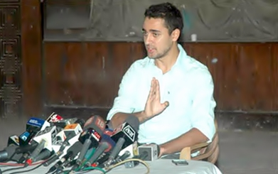 Imran Khan addressing the media over drinking age issue